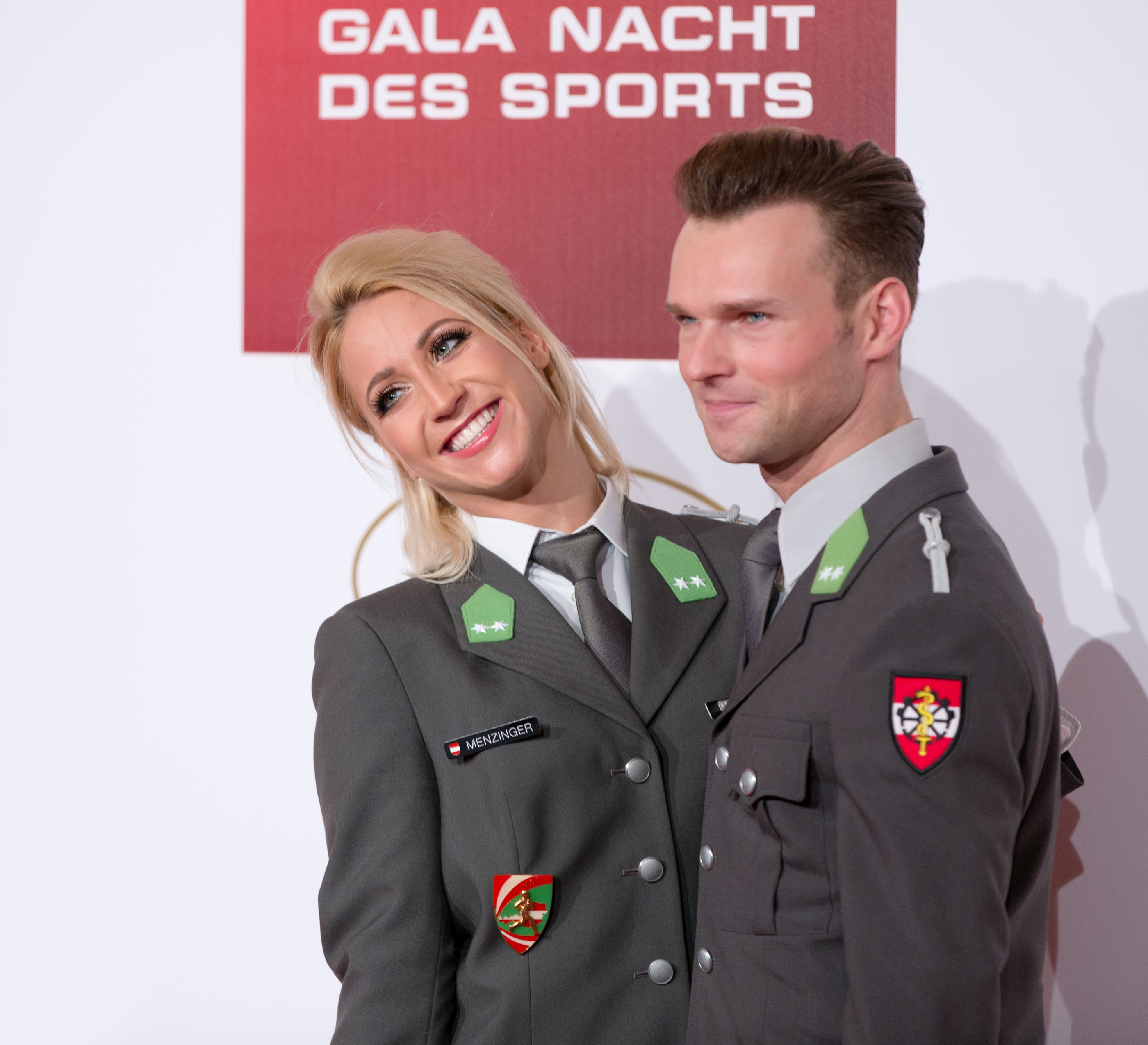 Kathrin Menzinger and Vadim Garbuzov at the gala for the Austrian Sportspersonalities of the Year 2015 (Austria Center Vienna).